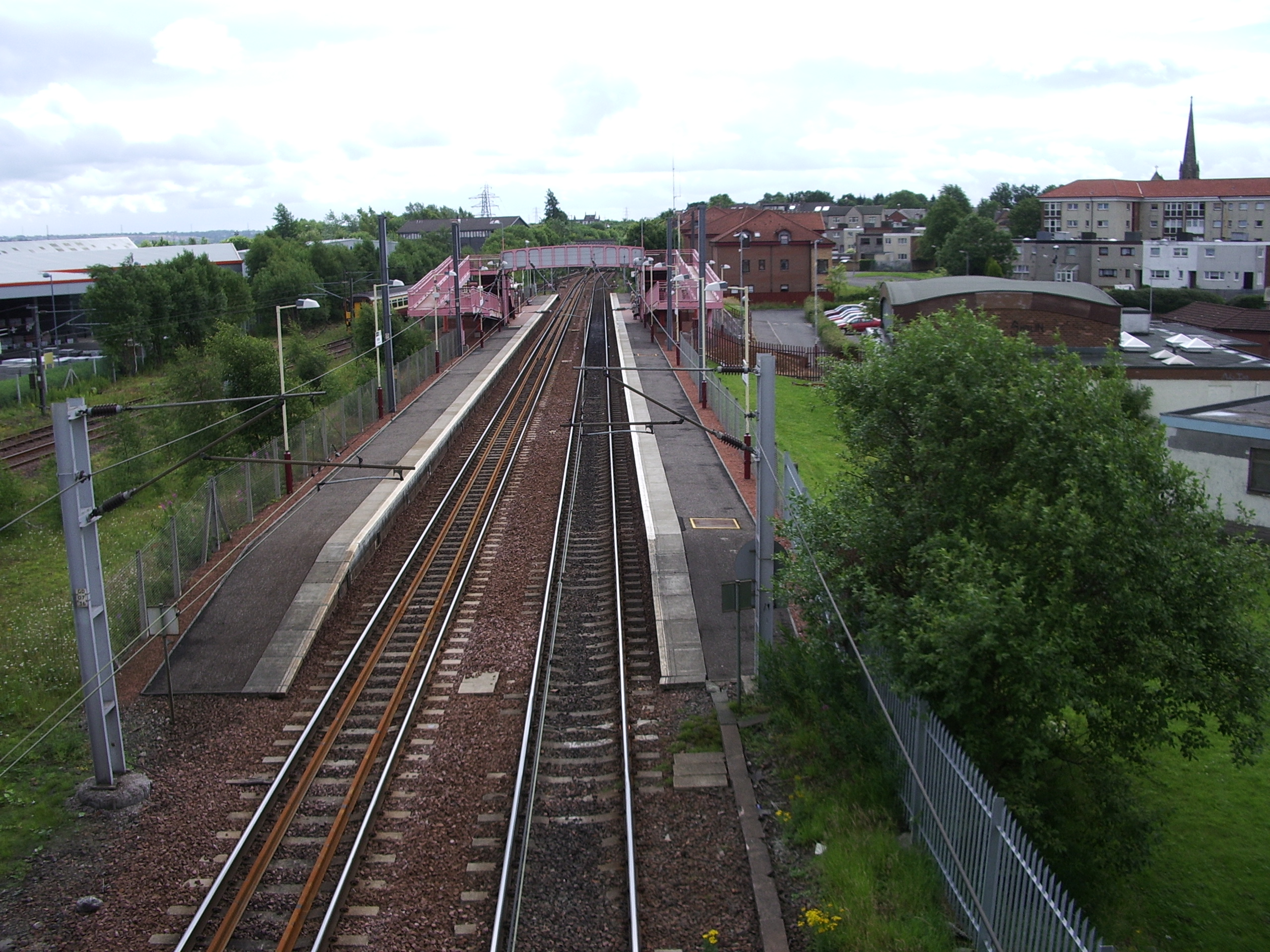 Whifflet railway station, Coatbridge, Scotland, looking south